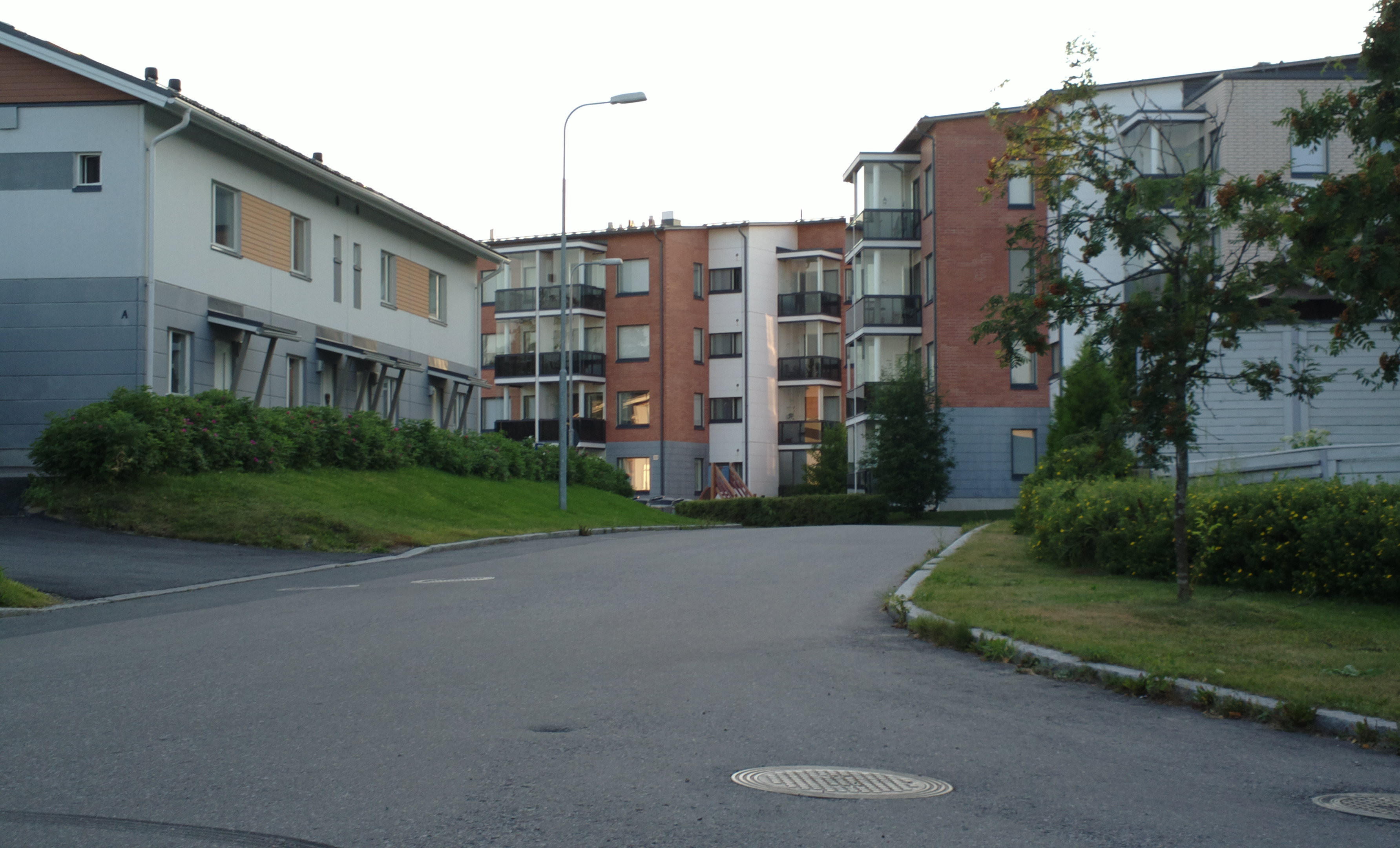 Vehkakuja street in Atala district of Tampere